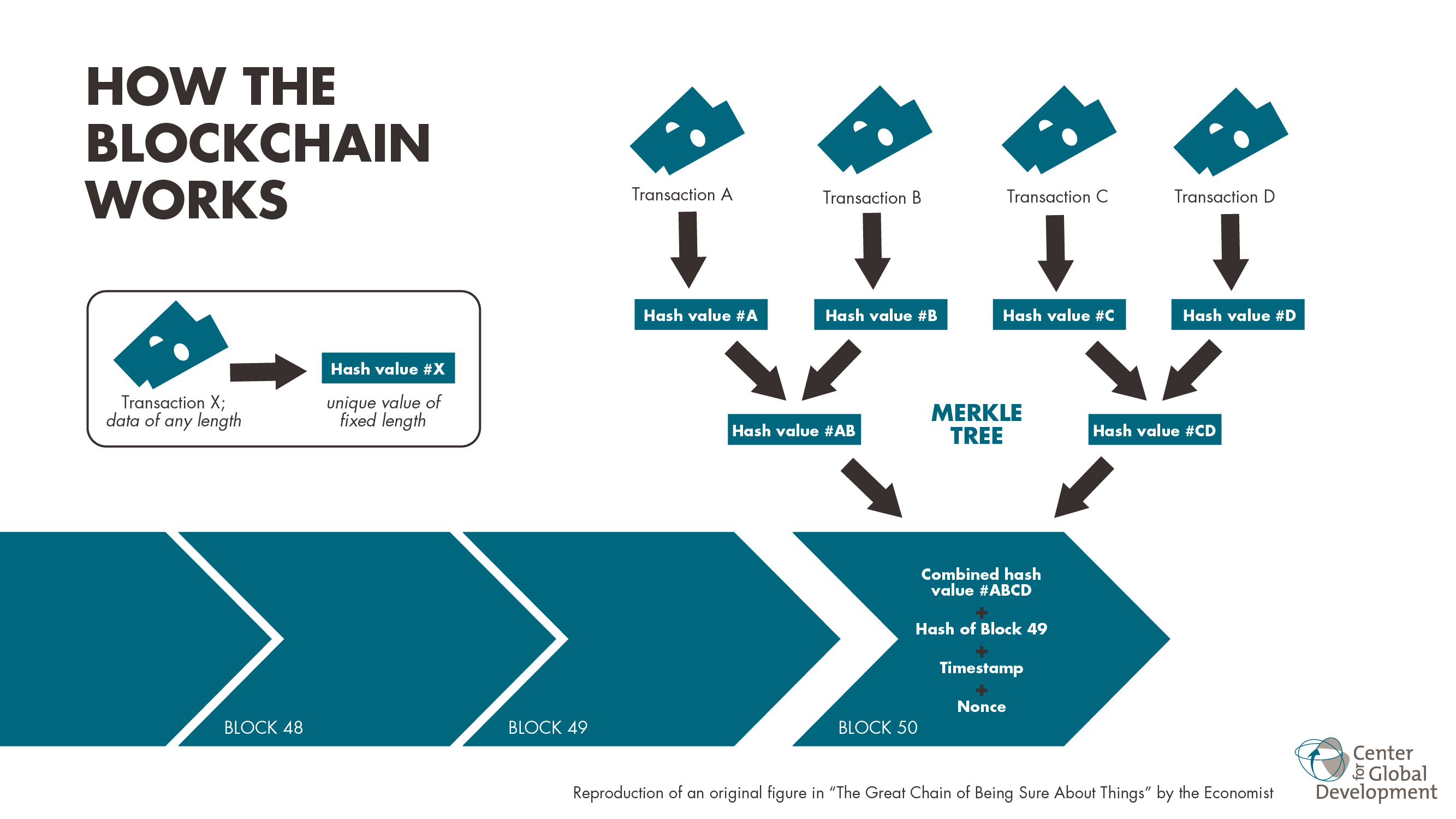 Блокчэйний ажиллагаа